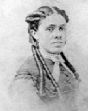 This photo of Lydia Weston ca. 1850 was placed in the US Library of Congress.